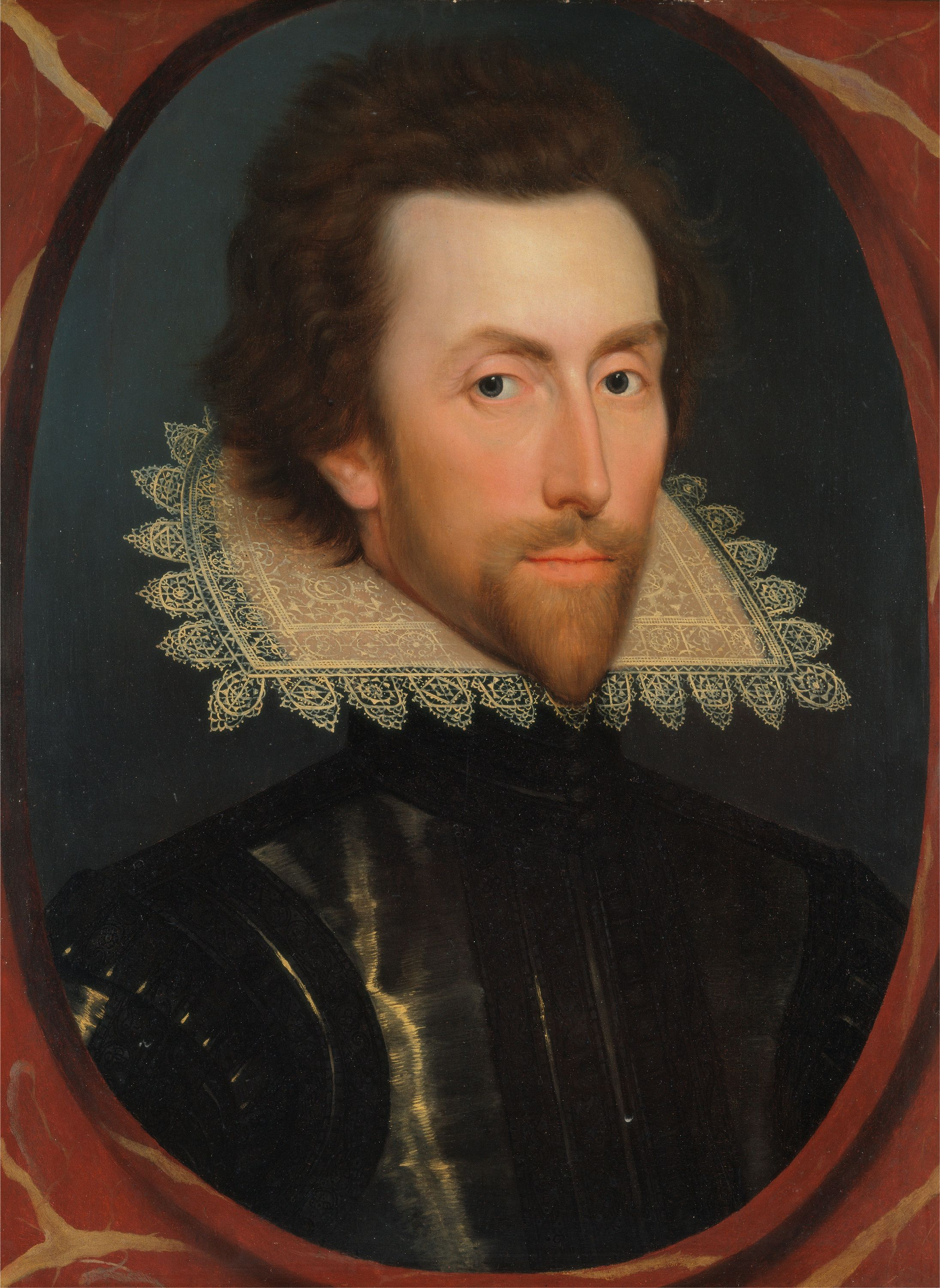 Portrait of Grey Brydges, 5th Baron Chandos, of Sudeley Castle, Gloucestershire (before 1581-1621), c.1615